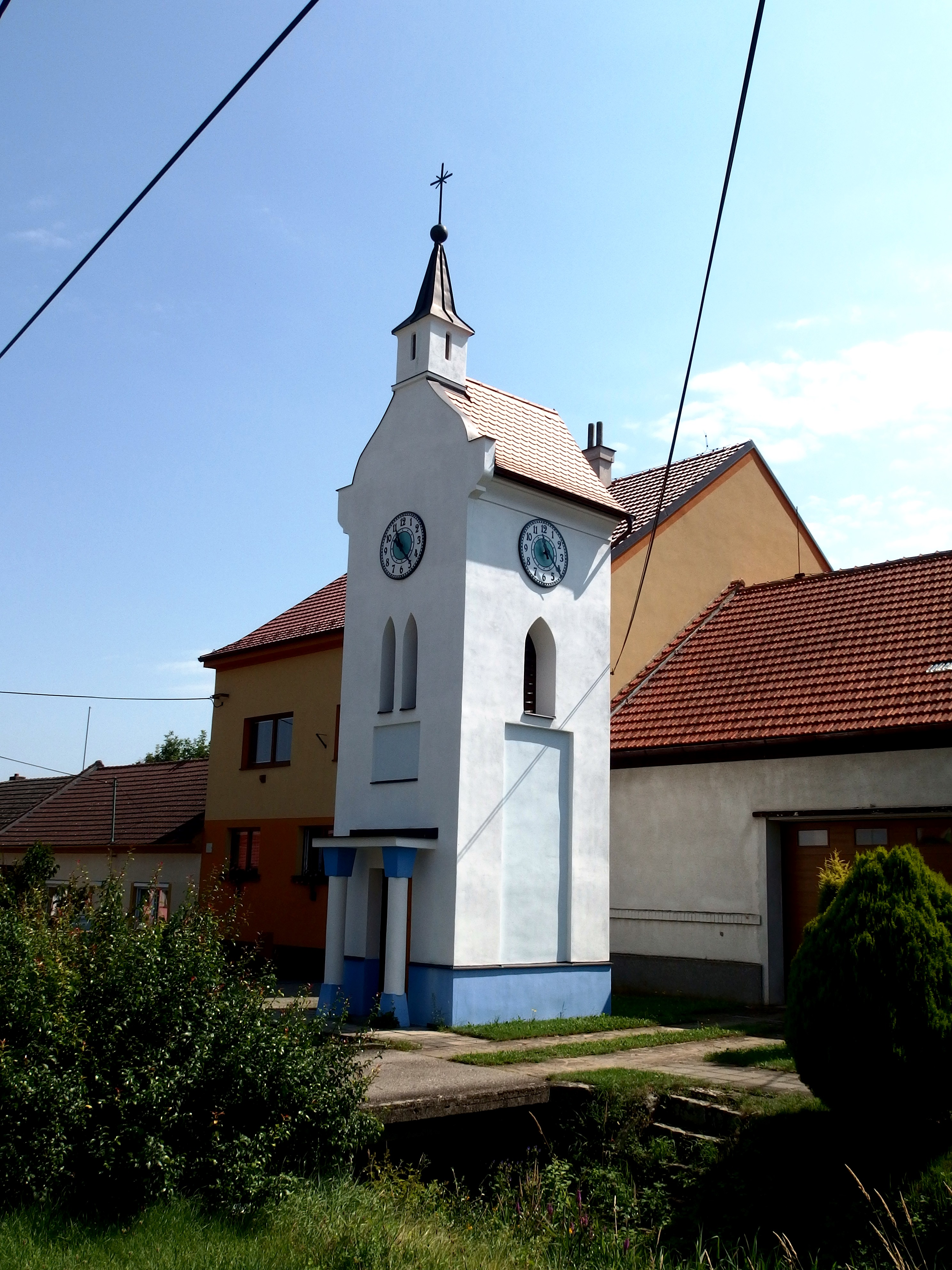 Malá Vrbka, Hodonín District, Czech Republic.